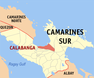 Map of Camarines Sur showing the location of Calabanga